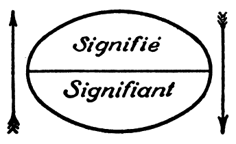 A generic diagram from Cours de linguistique générale illustrating the relationship between signified (French Signifié) and signifier (French Signifiant)